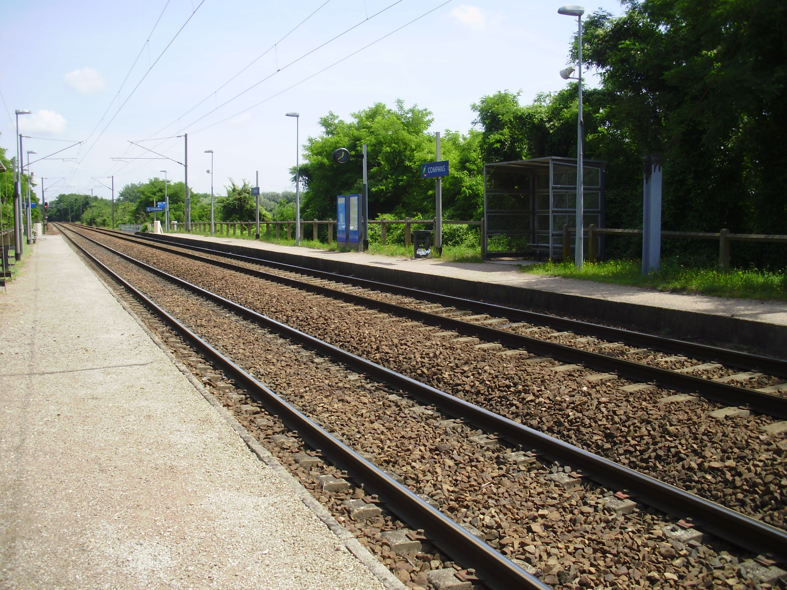 Compans station, Seine-et-Marne, France (left side platform to Crépy-en-Valois, right side platform to Paris)